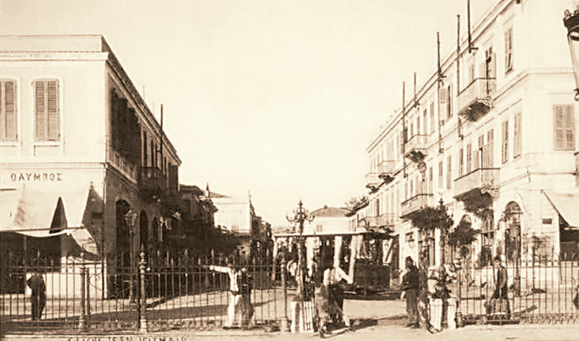 Eleftherias Square, in Thessaloniki. The photographer is unknown, but it is after 1867, when the square was created, and before 1905, when construction on the Stein Building began.